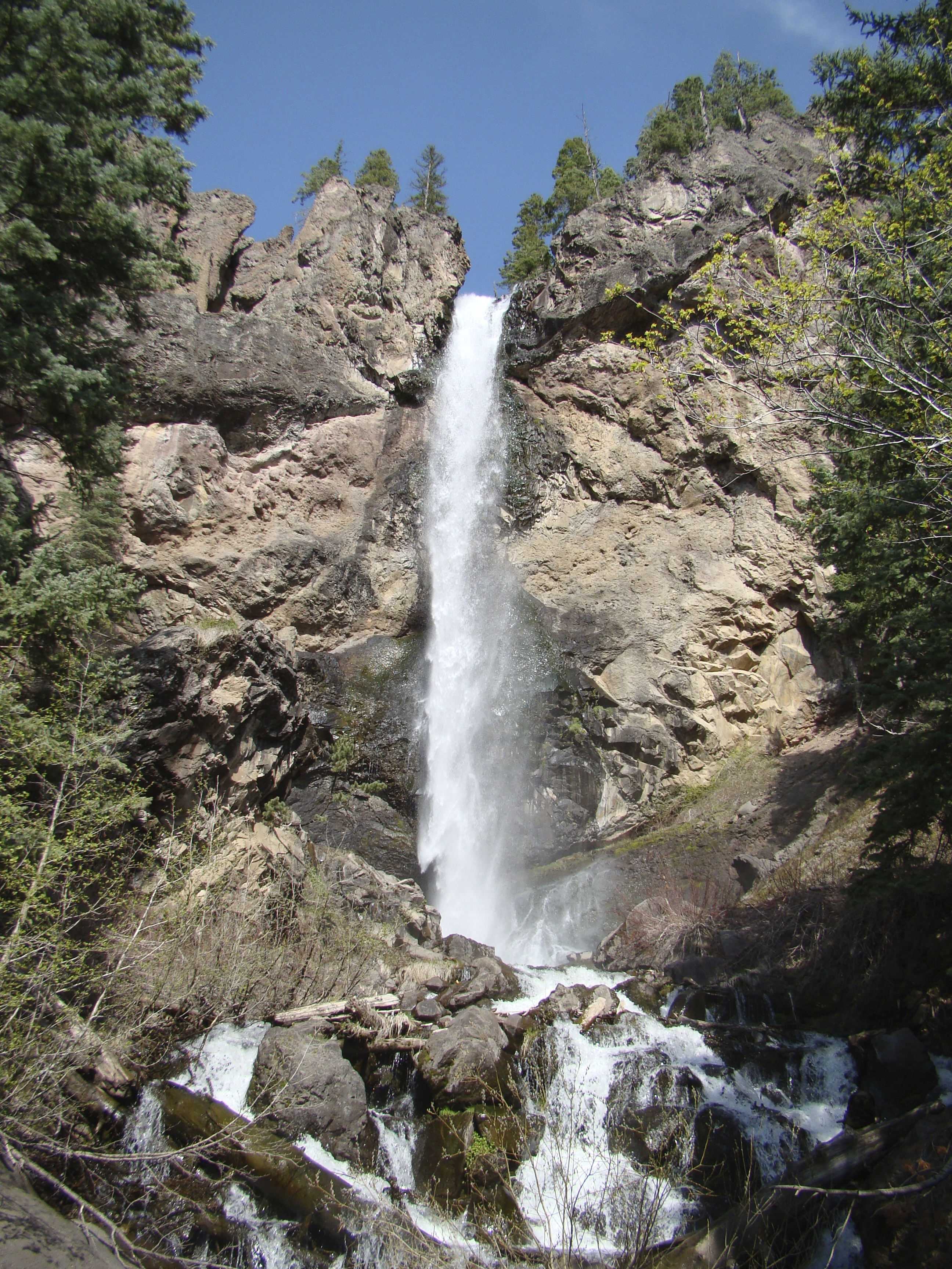 Treasure Falls, is a large waterfall located 15 miles east of Pagosa Springs, CO and short distance west of the Wolf Creek Pass off Highway 160.